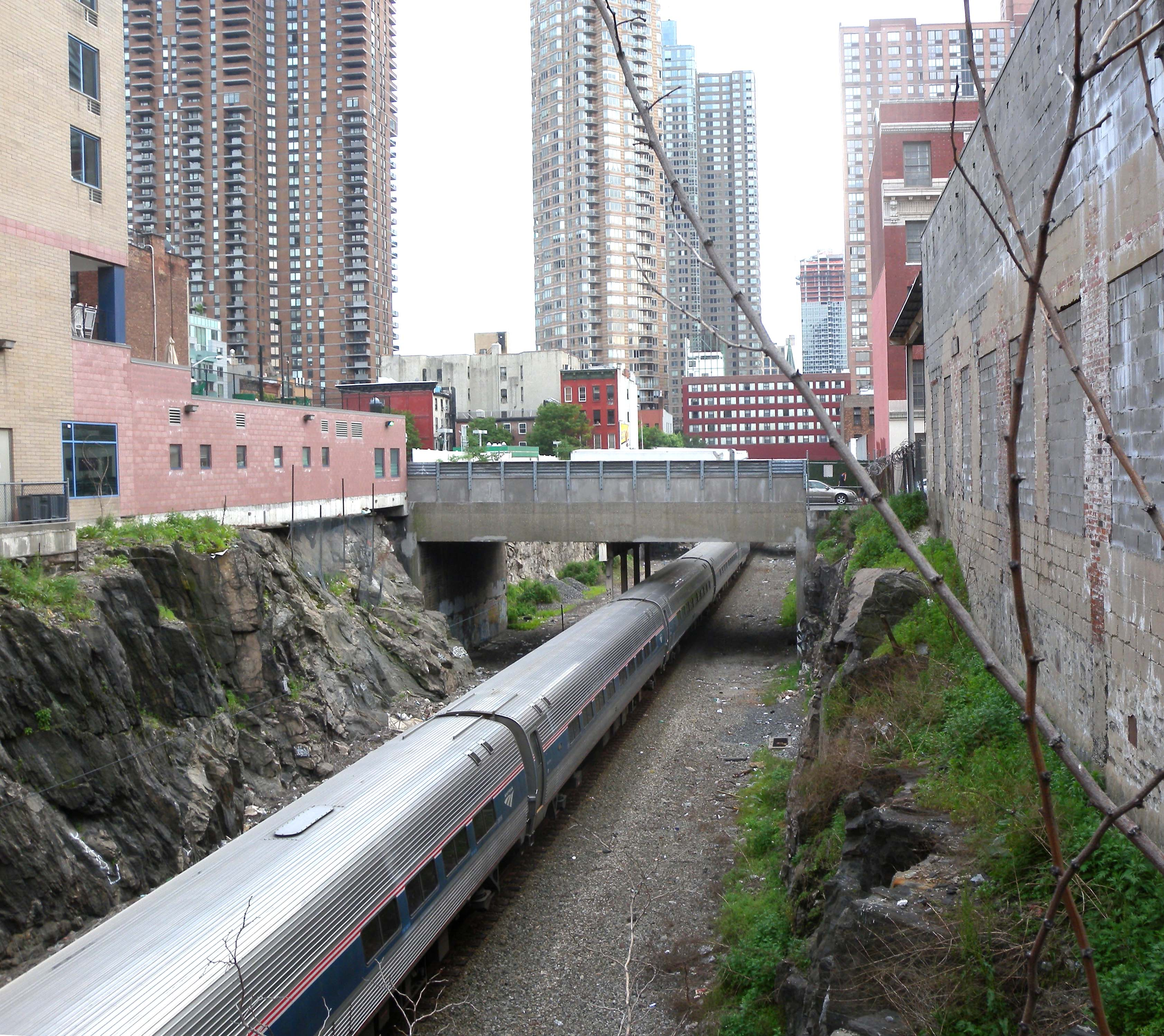 Looking south from West 46th Street at northbound Amtrak train in trench in Hell's Kitchen, NY.